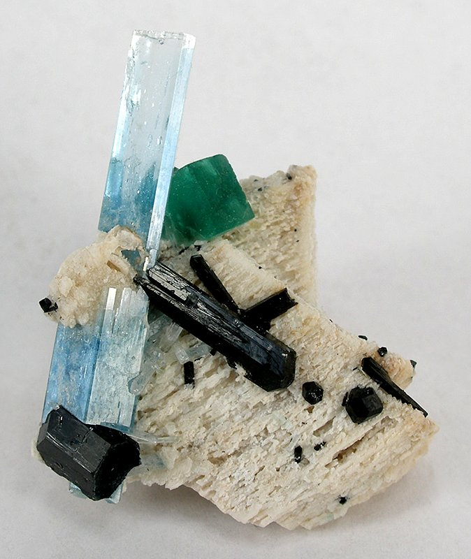 Beryl, Fluorite, Schorl Locality: Erongo Mountain, Usakos and Omaruru Districts, Erongo Region, Namibia (Locality at ) Size: miniature, 4.1 x 3.8 x 2.8 cm Aquamarine with Schorl and Fluorite on Feldspar This specimen is "elegant" in every sense. It features a slender but super quality aqua, 3.5 cm long, perched gently on a sharply angled feldspar crystal decorated with schorl and fluorite. Just a really fine piece that stands out from the crowd of Erongo pieces!